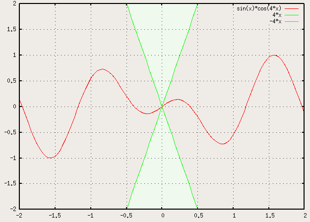 Graphical interpretation of Lipschitz continuity, by Toobaz (